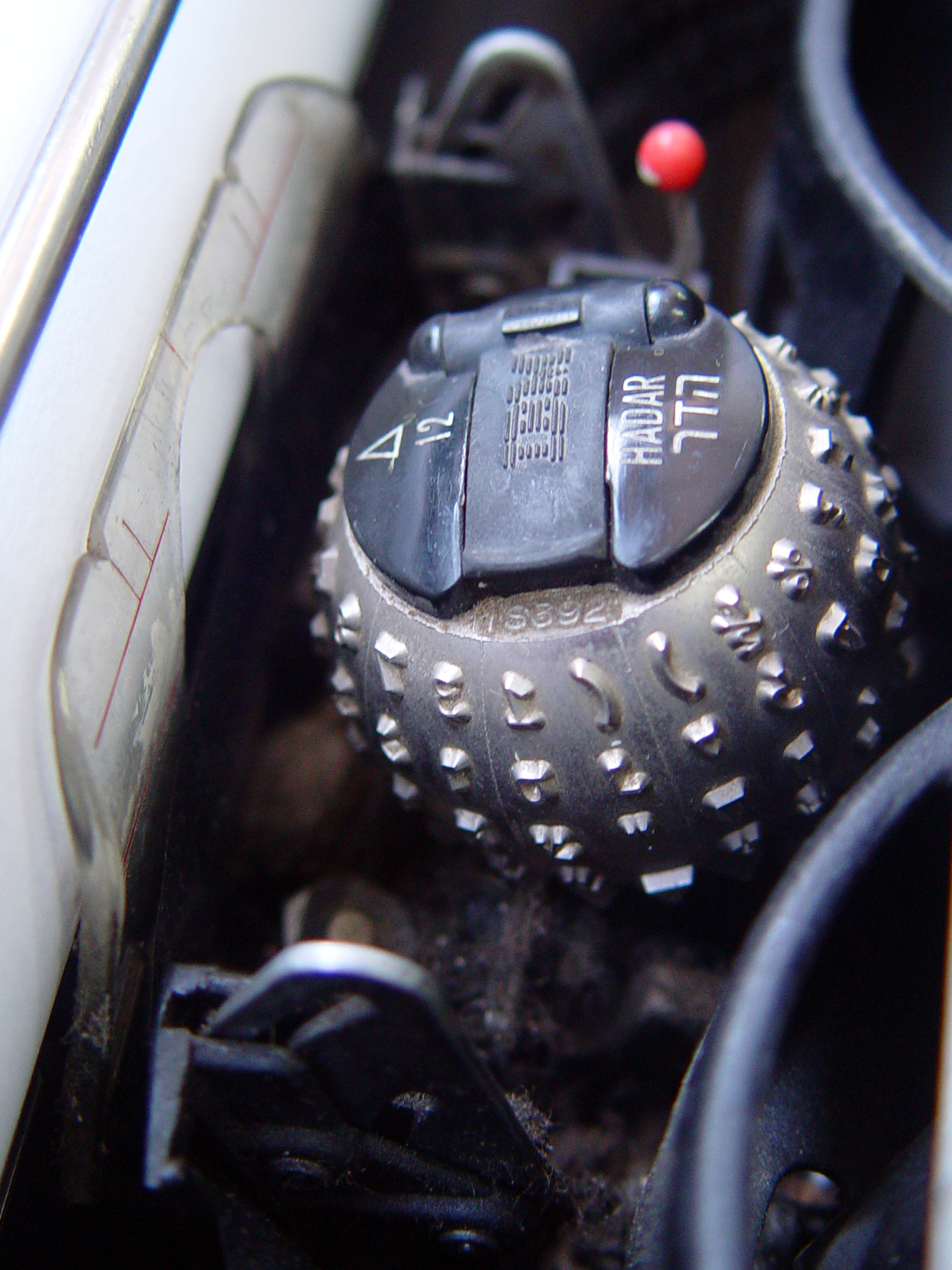 IBM Selectric II dual Latin/Hebrew Hadar typeball with 92 printable characters (font designed by Henry Friedlaender). The type ball was made from plastic, vacuum plated with some type of metal.